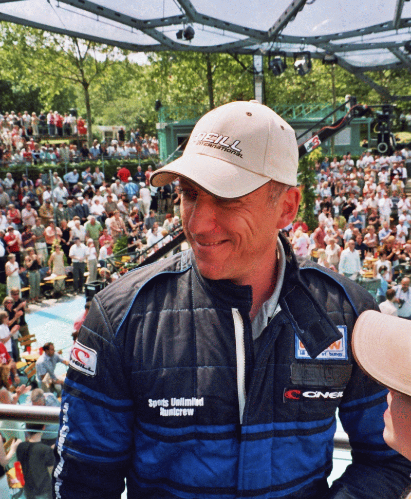 Stefan Roos (Stuntman)